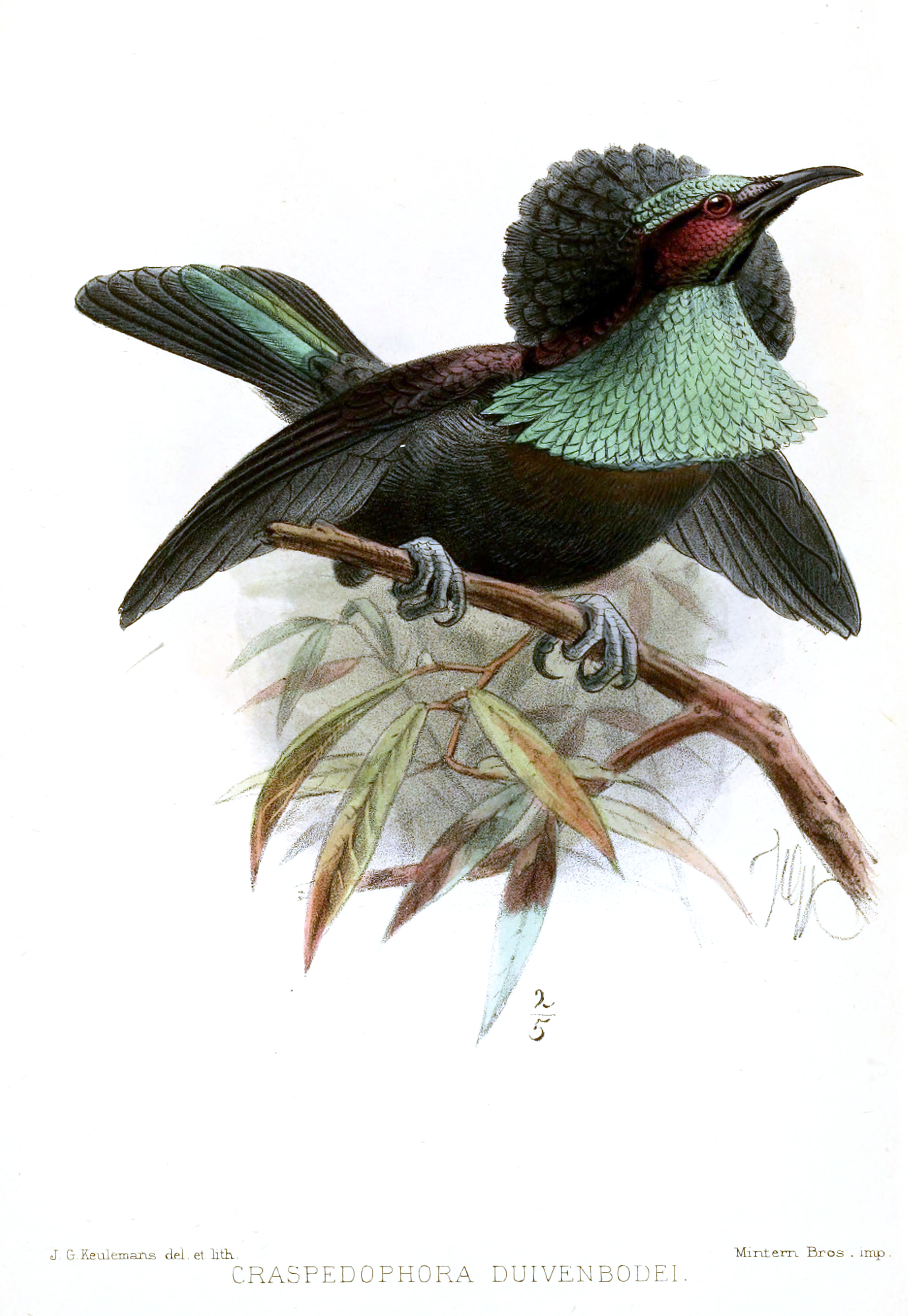 Craspedophora duivenbodei (now considered as hybrid Ptiloris magnificus intercedens x Lophorina superba minor)